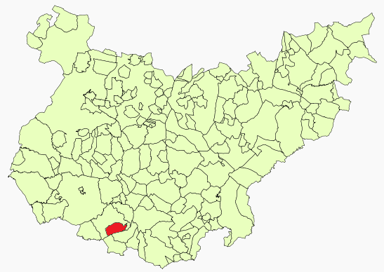 Bodonal de la Sierra